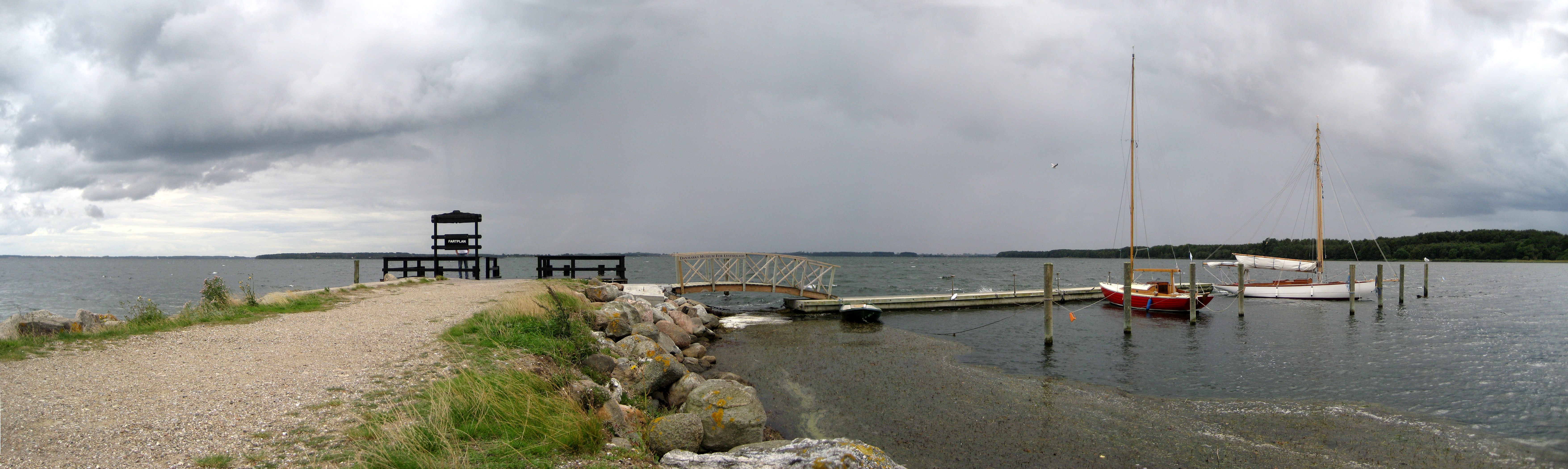 Ferrydock at Valdemars Slot